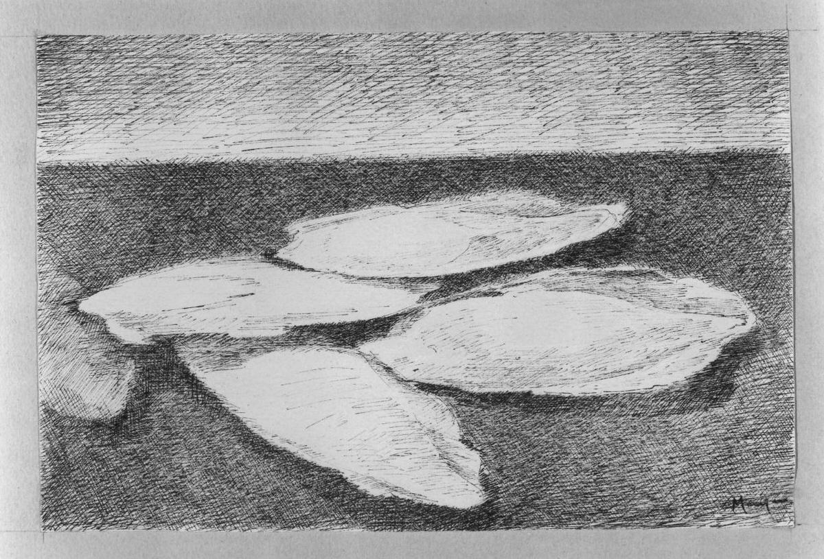 Bozzetto per la copertina del volume “Ossi di seppia” di Eugenio Montale, Einaudi, Torino